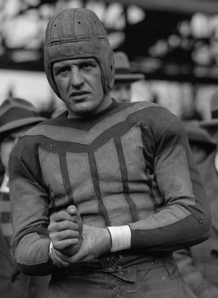 American football player "Red" Harold Grange (1903-1991)